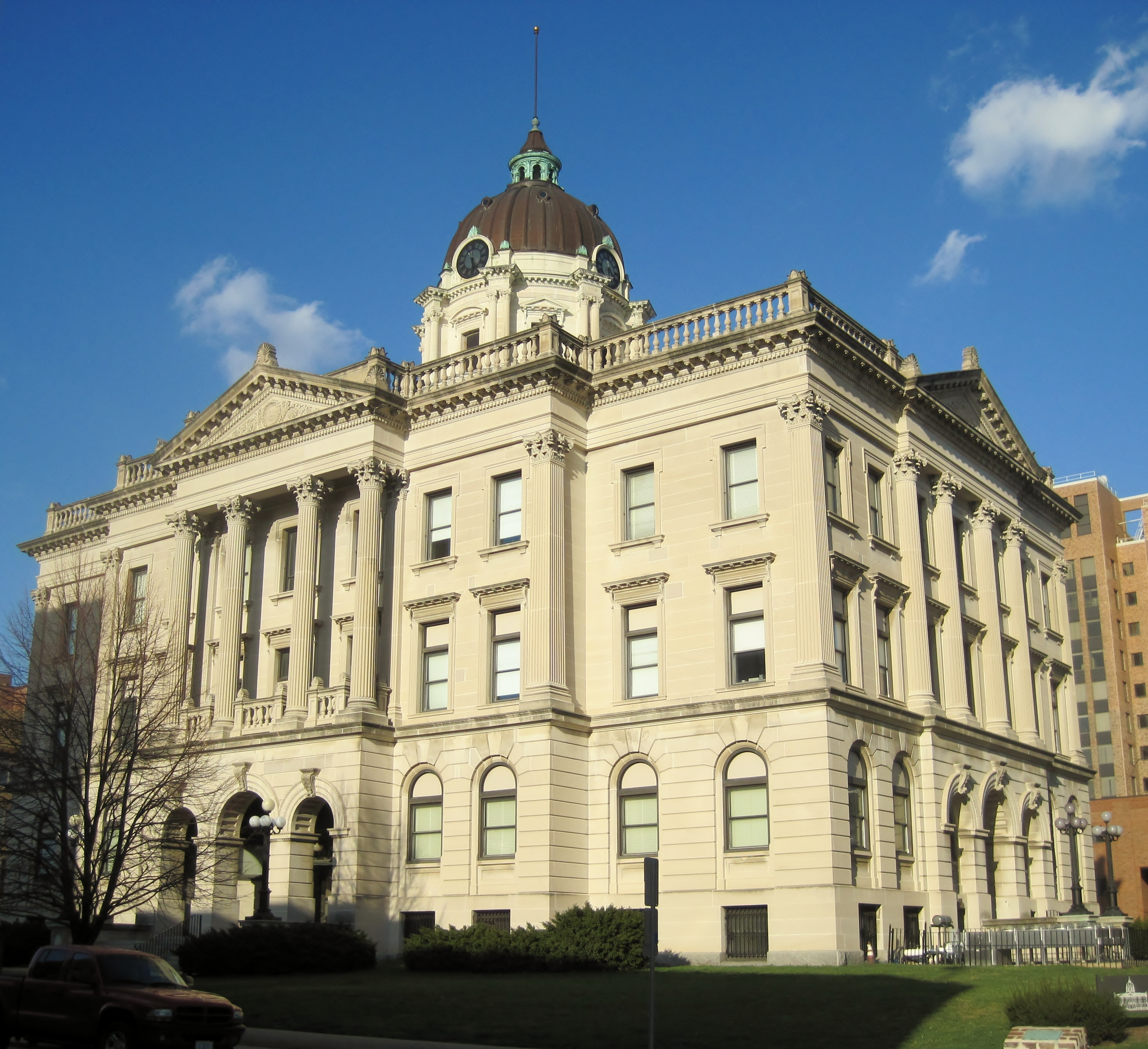 The McLean County Courthouse & Square in Bloomington (1903). It was the home of the McLean County Circuit Court from 1900 to 1976. A fire damaged the building three years later, and it was redesigned by three of Bloomington's most notable architects: George Miller, Arthur Pillsbury, and Paul Moratz. In the 1980s, the McLean County Historical Society opened a museum in the former courthouse.